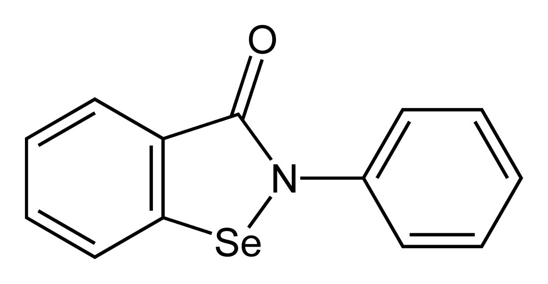 Skeletal formula of ebselen, C13H9NOSe, 2-phenyl-1,2-benzisoselenazol-3(2H)-one.